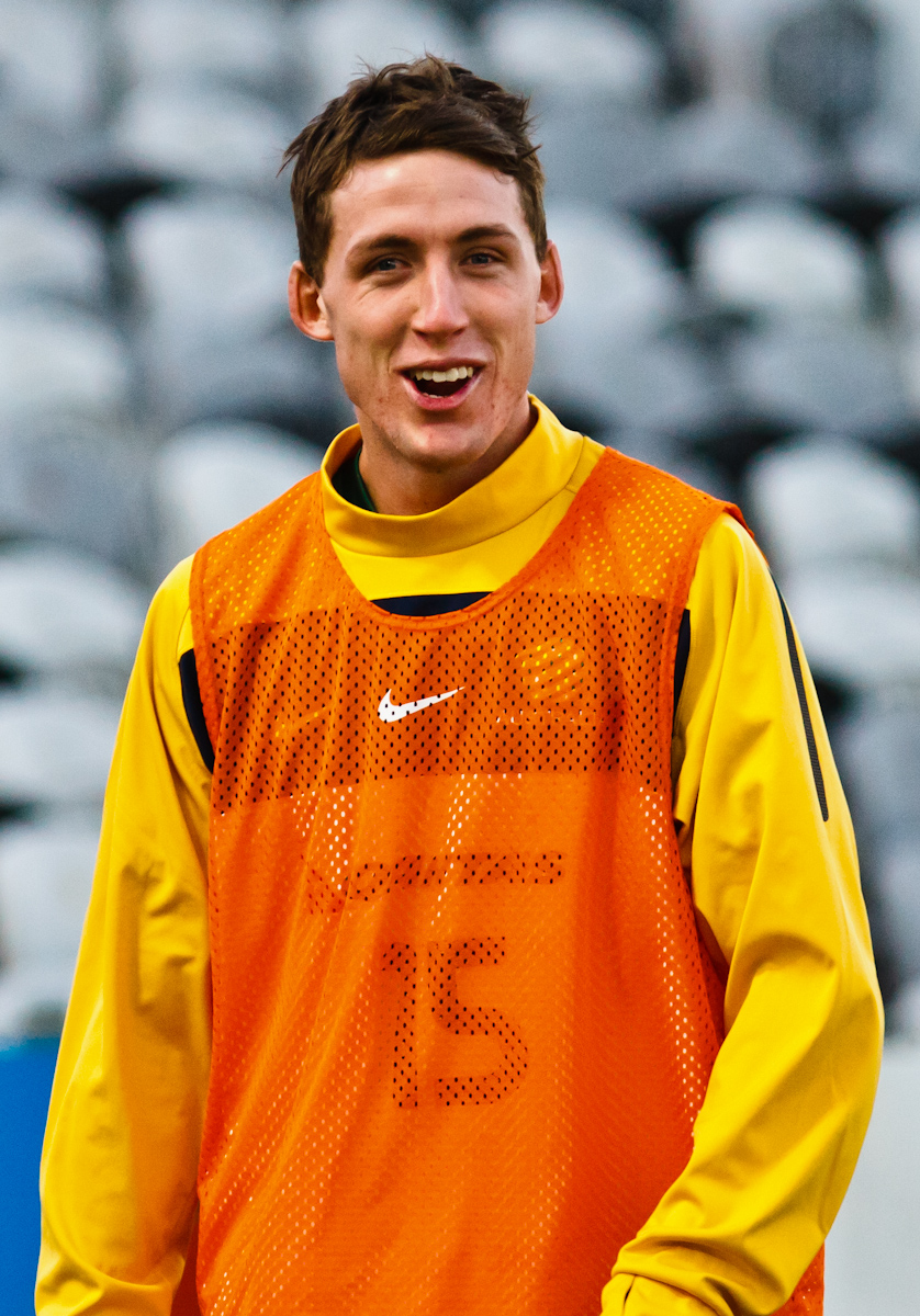 Scott Neville warming up for the Australian Olympic Football team in 2011 at Gosford, New South Wales.